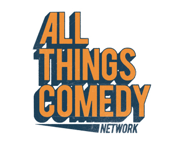 the logo for All Things Comedy